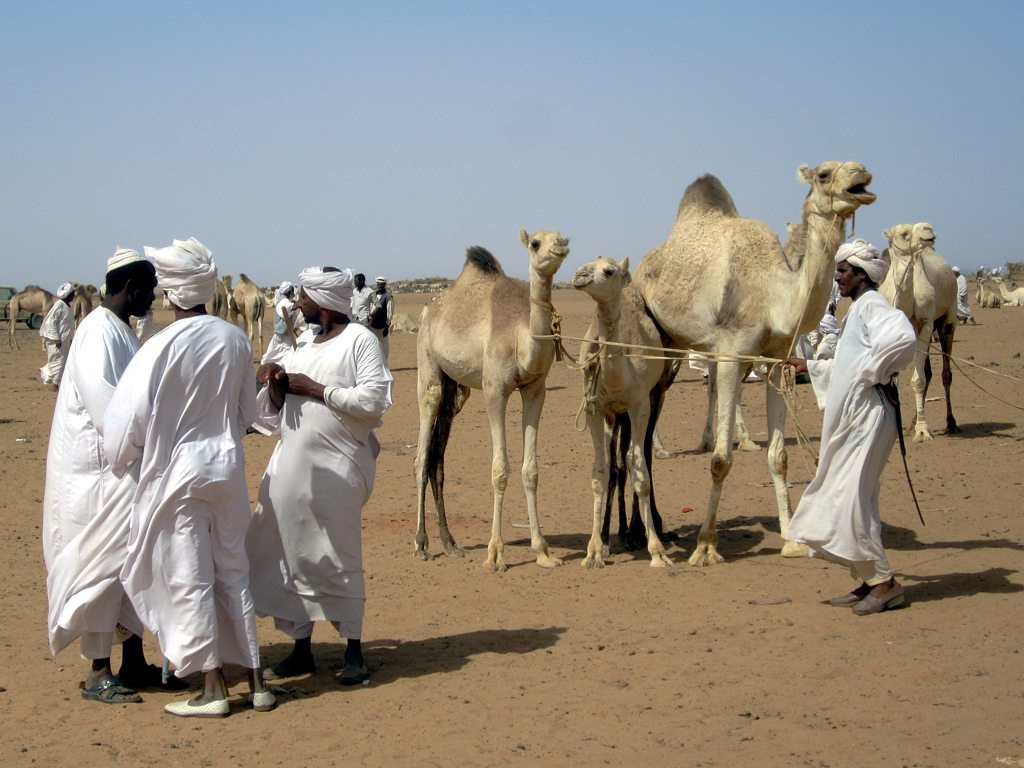 Herders at the camel market on the far west side of Omdurman, Sudan. Many of the animals end up on the dinner tables of Egypt or the race tracks of the Gulf States.